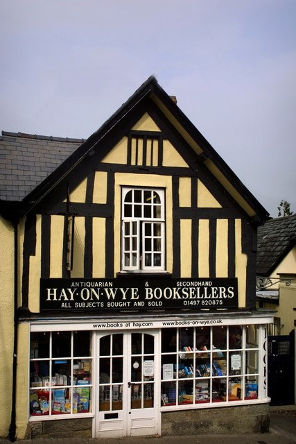 Hay-On-Wye Booksellers. Hay-on-Wye is a mecca for bibliophiles, boasting "thirty major bookshops" (according to its Tourist Information Bureau). Most, like this one, mainly sell second-hand books.